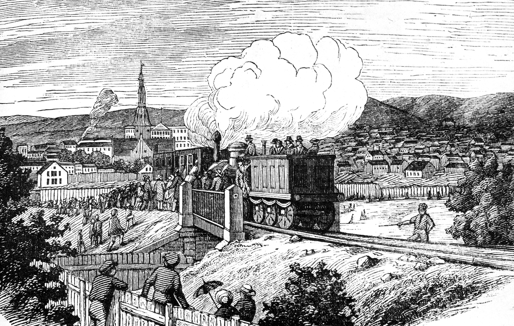 A xylograph of the first trial run of the main railroad in Norway, when it was only partially complete, i.e., tracks were laid from Oslo to Strømmen.